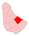 Map of Barbados showing parish of Saint John.